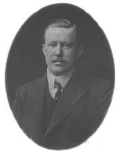 Swedish tennisplayer Pontus Qvarnström